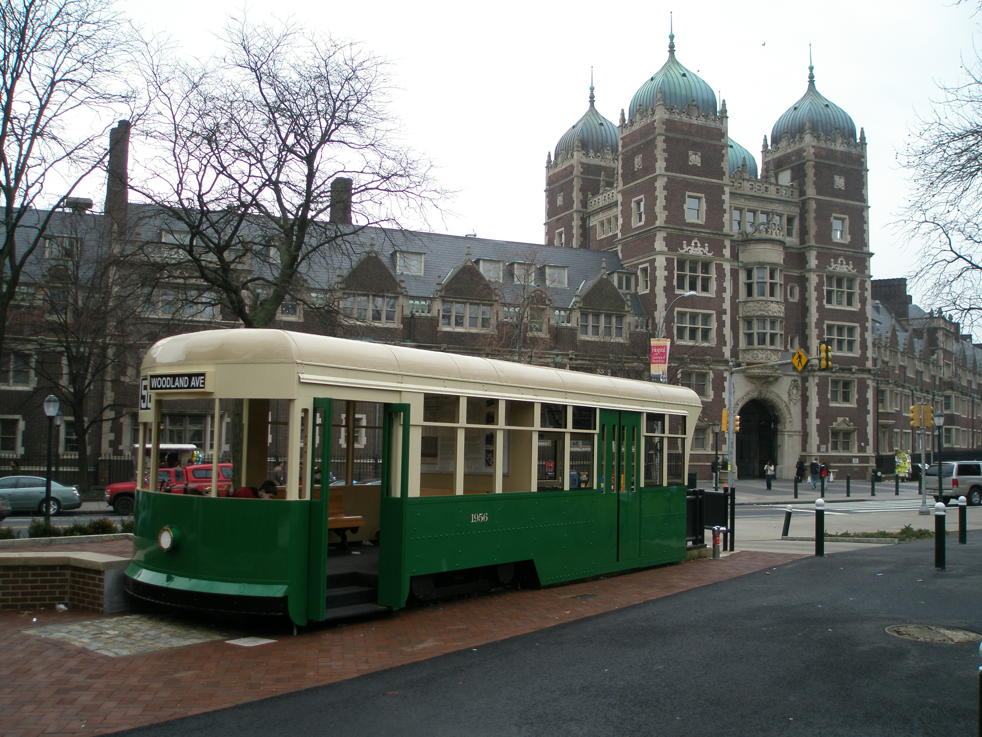 The 37th/Spruce (SEPTA station) and Upper Quad Gate. Built by the Gomaco Trolley Company, the entrance replicates the body of a Philadelphia Peter Witt-type streetcar of the 1920s.